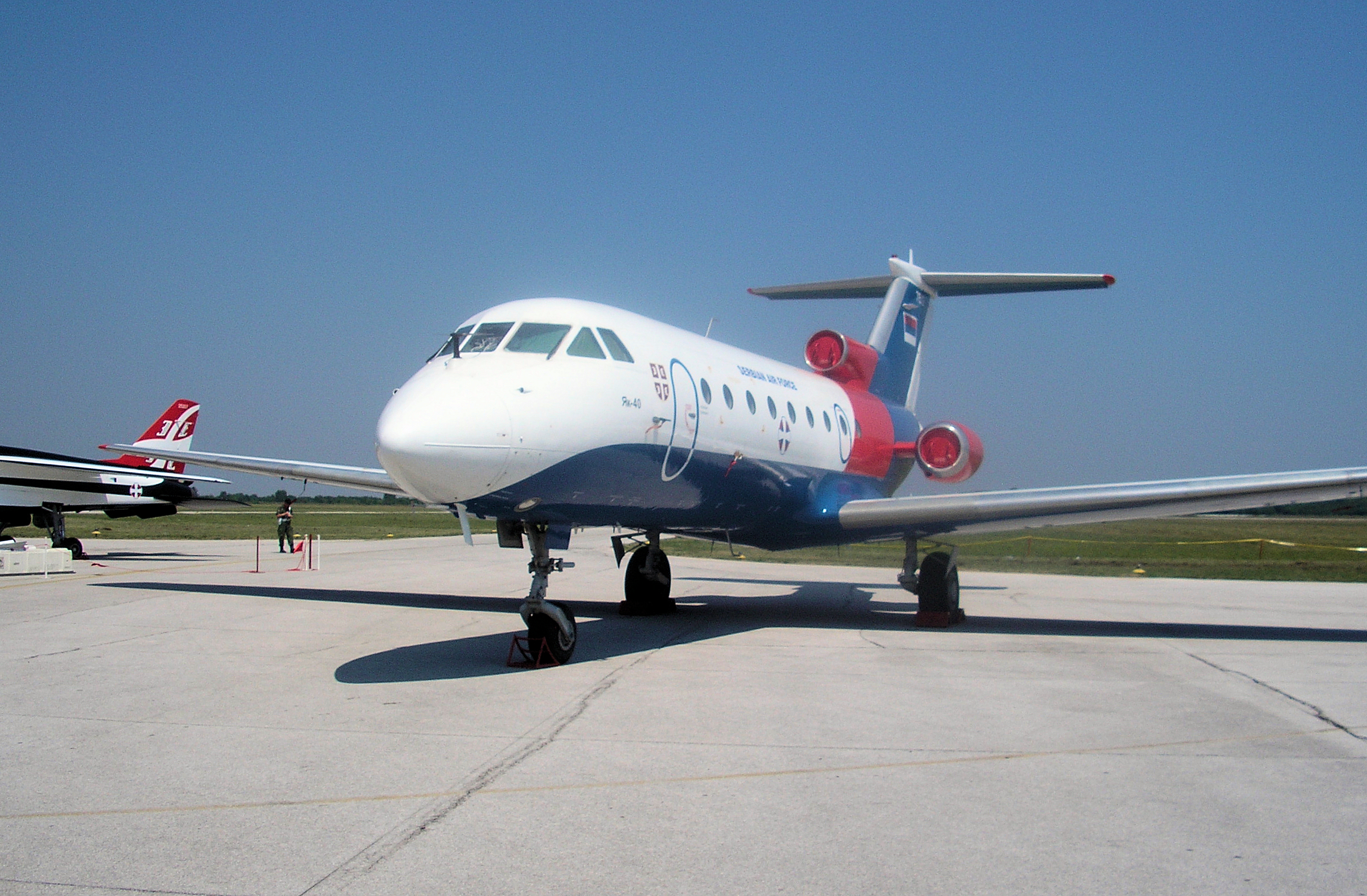 Overhauled Yak-40 No.71503 of 138. Mixed-Transport-Aviation Squadron, 204th Air Base of Serbian Air Force, on display at Batajnica airbase during the Saint Elijah, the Aviation Day in Serbia. The aircraft is painted in colors of Serbian flag.